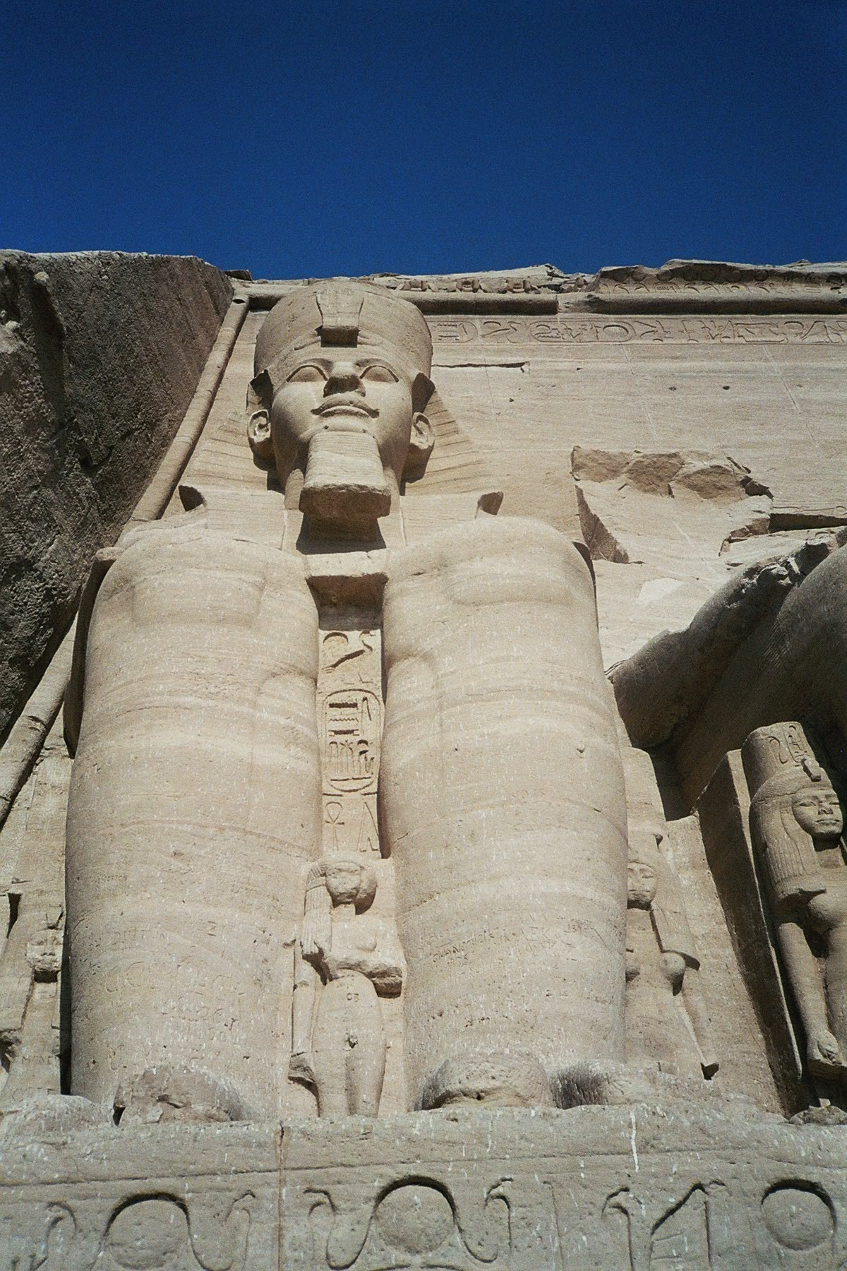 Left Statue of Ramses II, Abu Simbel, Egypt